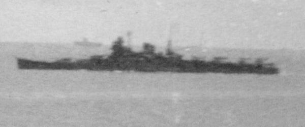 MOGAMI, heavy cruiser of the Imperial Japanese Navy. Aircraft carrier on back is Taiho or Hiyo class. View from Maya.